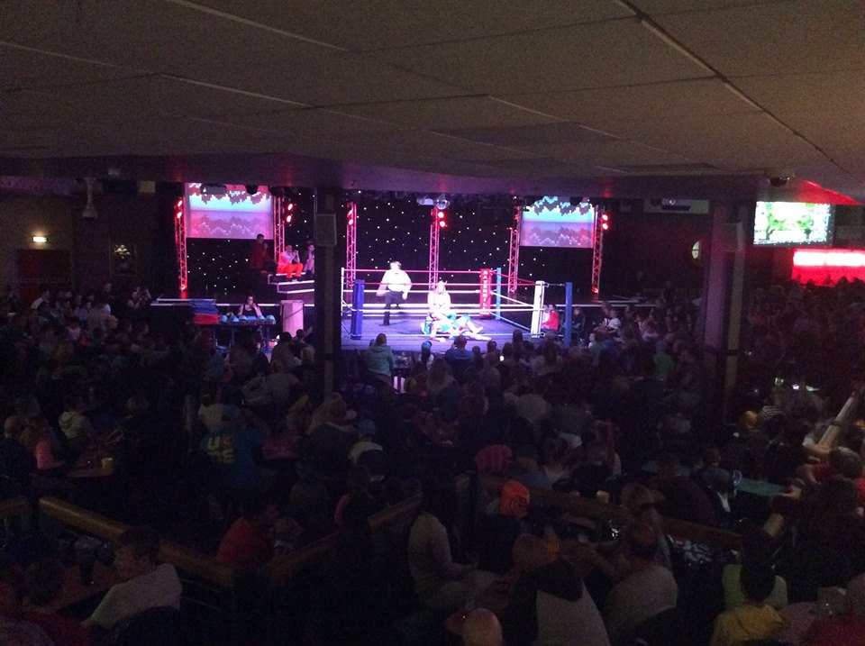 Welsh Wrestling at Trecco Bay in August 2015